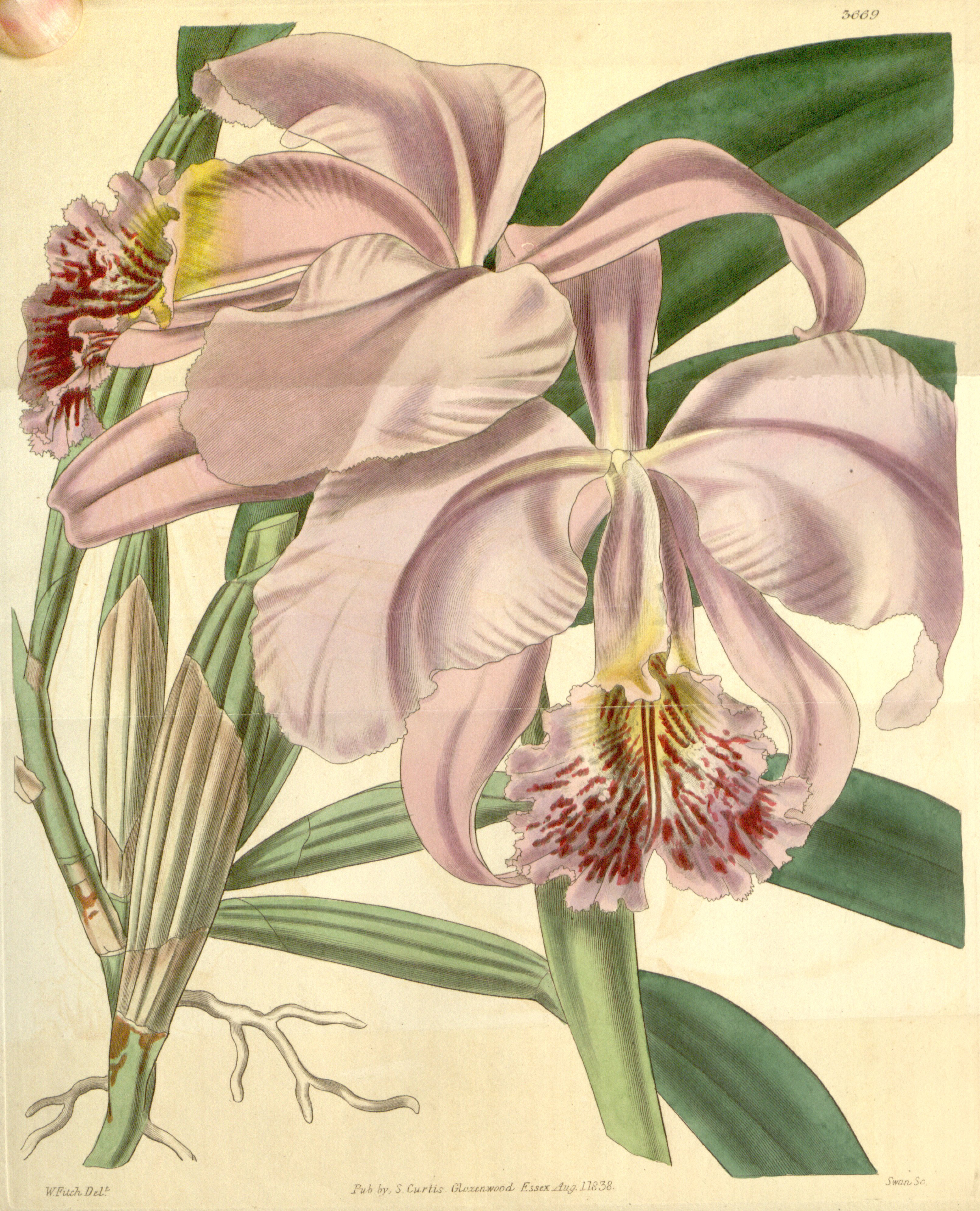 Illustration of Cattleya mossiae